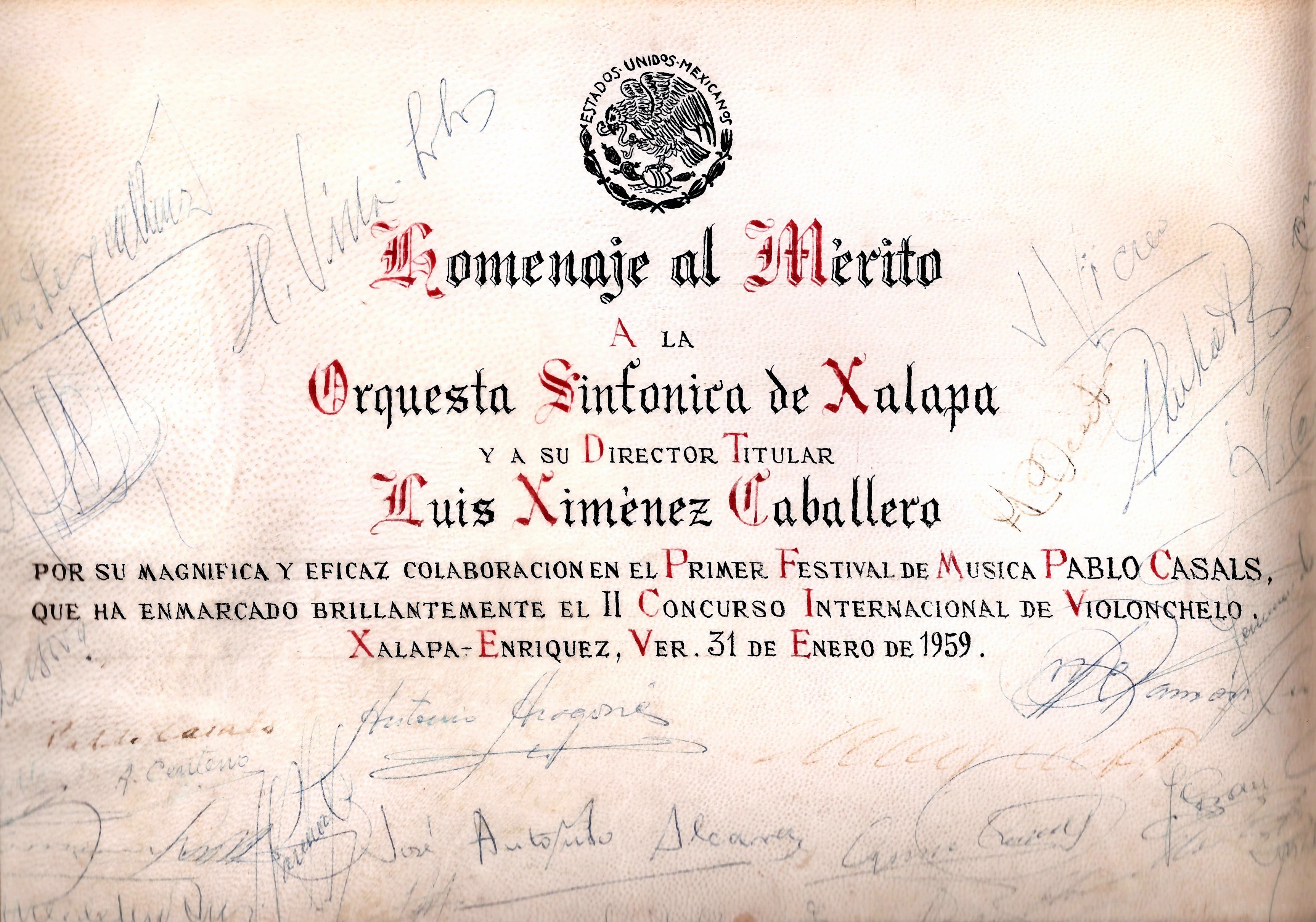 Diploma awarded by the President of Mexico, dated January 31, 1959 to the Xalapa Symphony Orchestra and its principal conductor Luis Ximénez Caballero, for their work in the First Festival of Music "Pablo Casals" (handwritten signatures of Heitor Villa-Lobos, Pablo Casals, Blas Galindo, Higinio Ruvalcaba, Mstislav Rostropovich and Blas Galindo, among several others)